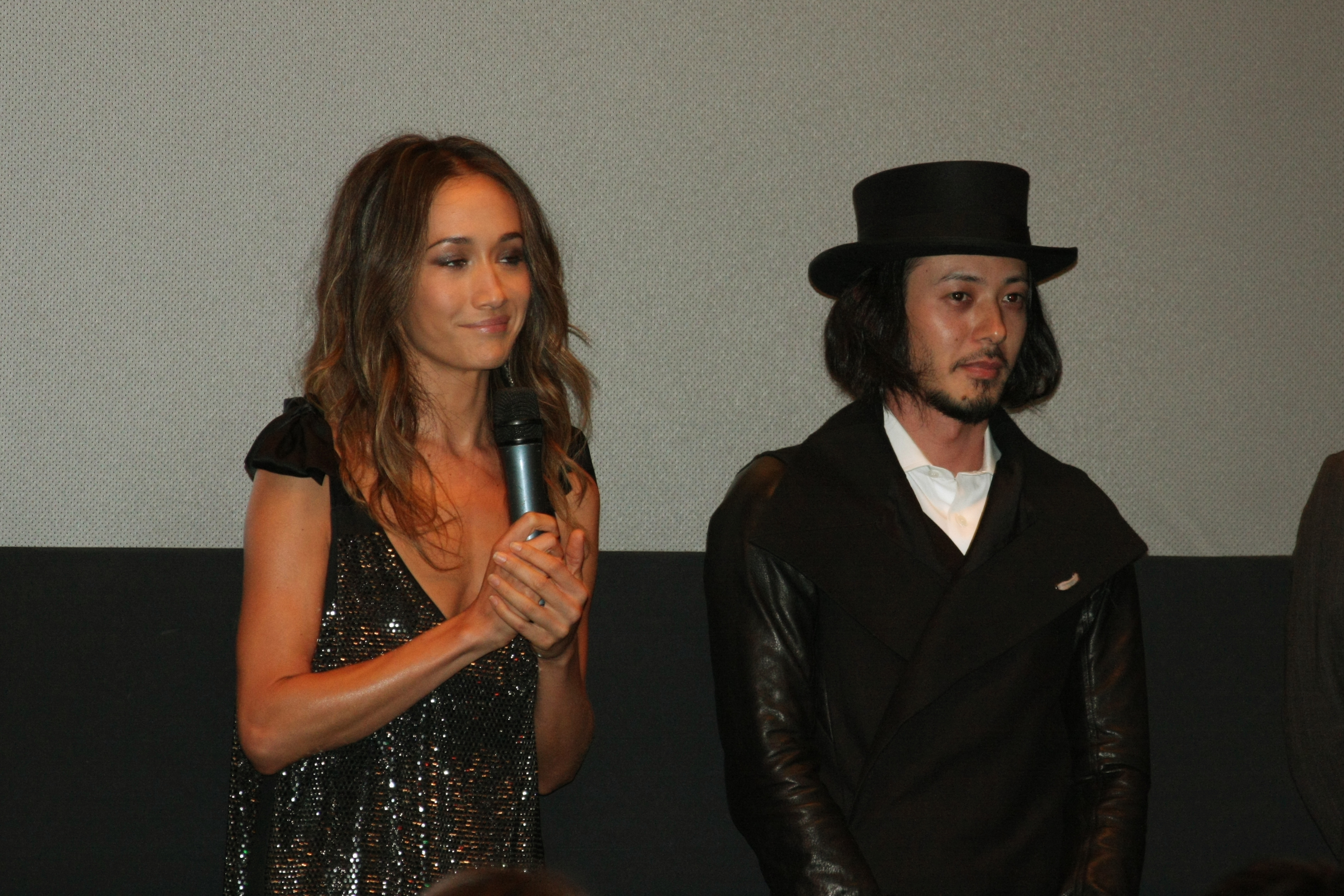 The two international Asian stars are in way too many love scenes in this film.... Maggie Q says (and I paraphrase), "It is a very intimate film for me... I wouldn't do these scenes again with any one other than Joe."